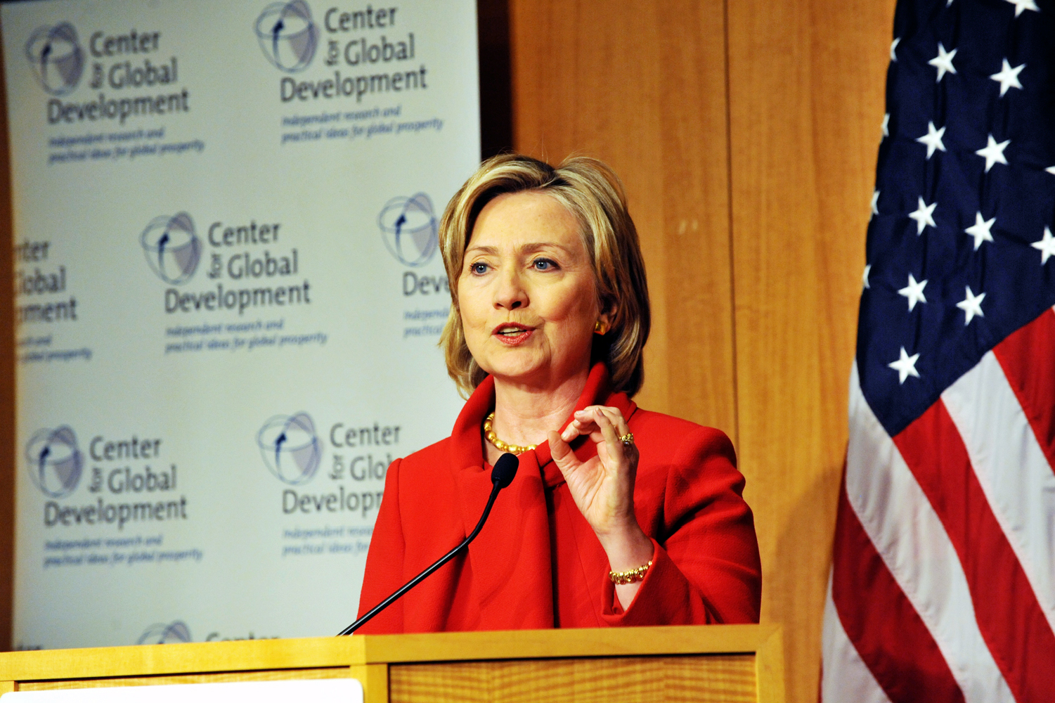 U.S. Secretary of State Hillary Rodham Clinton provides remarks on "Development in the 21st Century" at the Center for Global Development in Washington, DC January 6, 2010. [State Department photo / Public Domain]